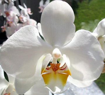 Phalaenopsis hybrid